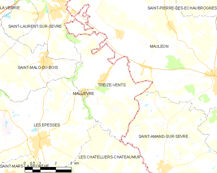 Map of French municipality Treize-Vents